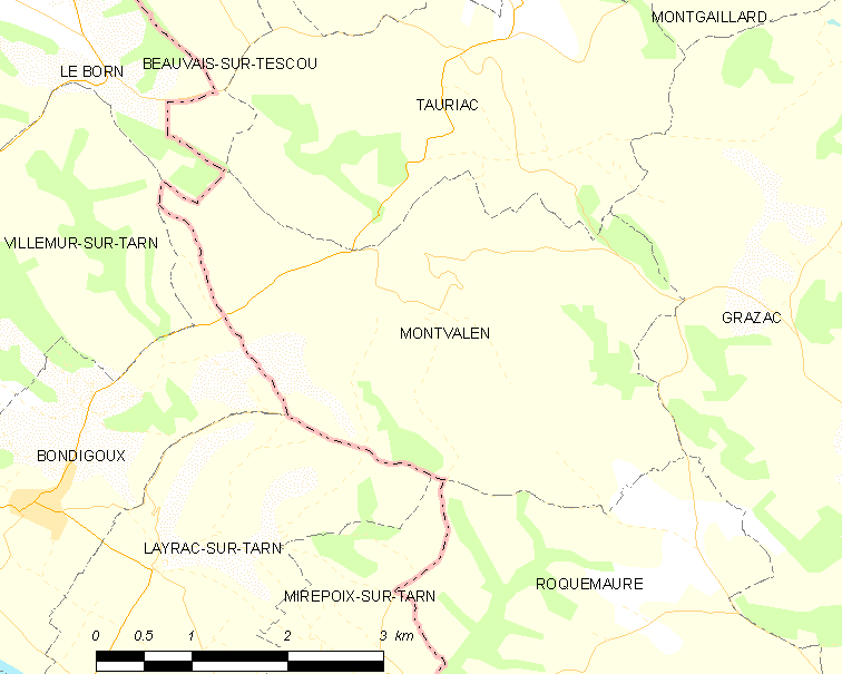 Map of French municipality Montvalen